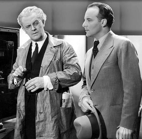 Film "Szpieg w masce" (1933): Jerzy Leszczyński (professor Skalski), Igo Sym (head of Polish counter-intelligence).